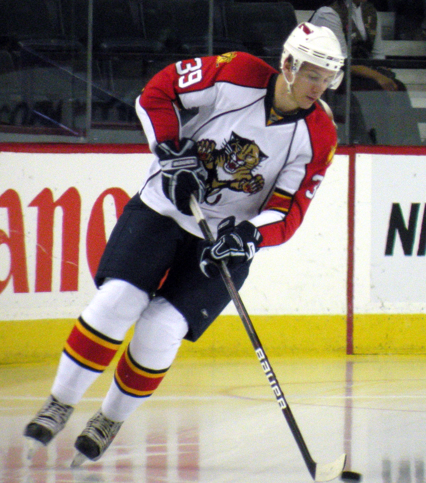 Florida Panthers prospect Keaton Ellerby during warm-up prior to a National Hockey League exhibition game against the Calgary Flames, in Calgary.